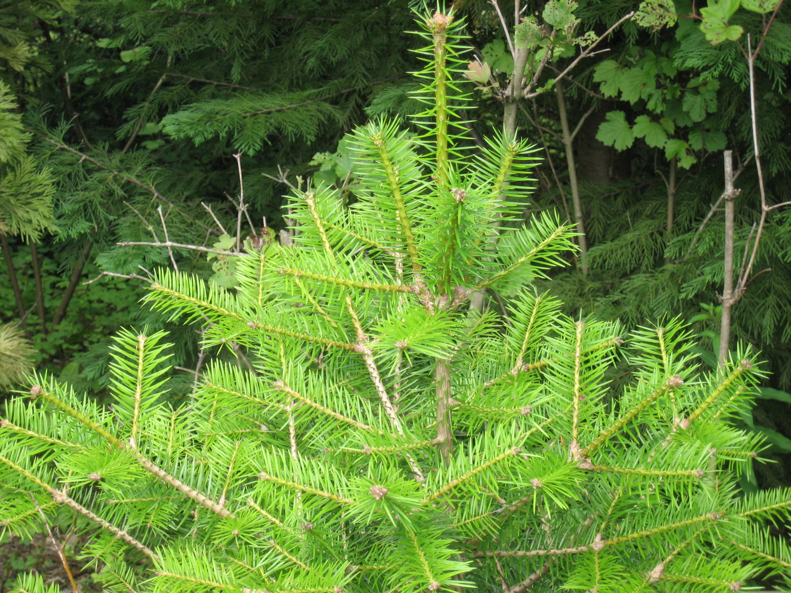 Abies holophylla young tree, cultivated Newcastle, Northumberland, United Kingdom